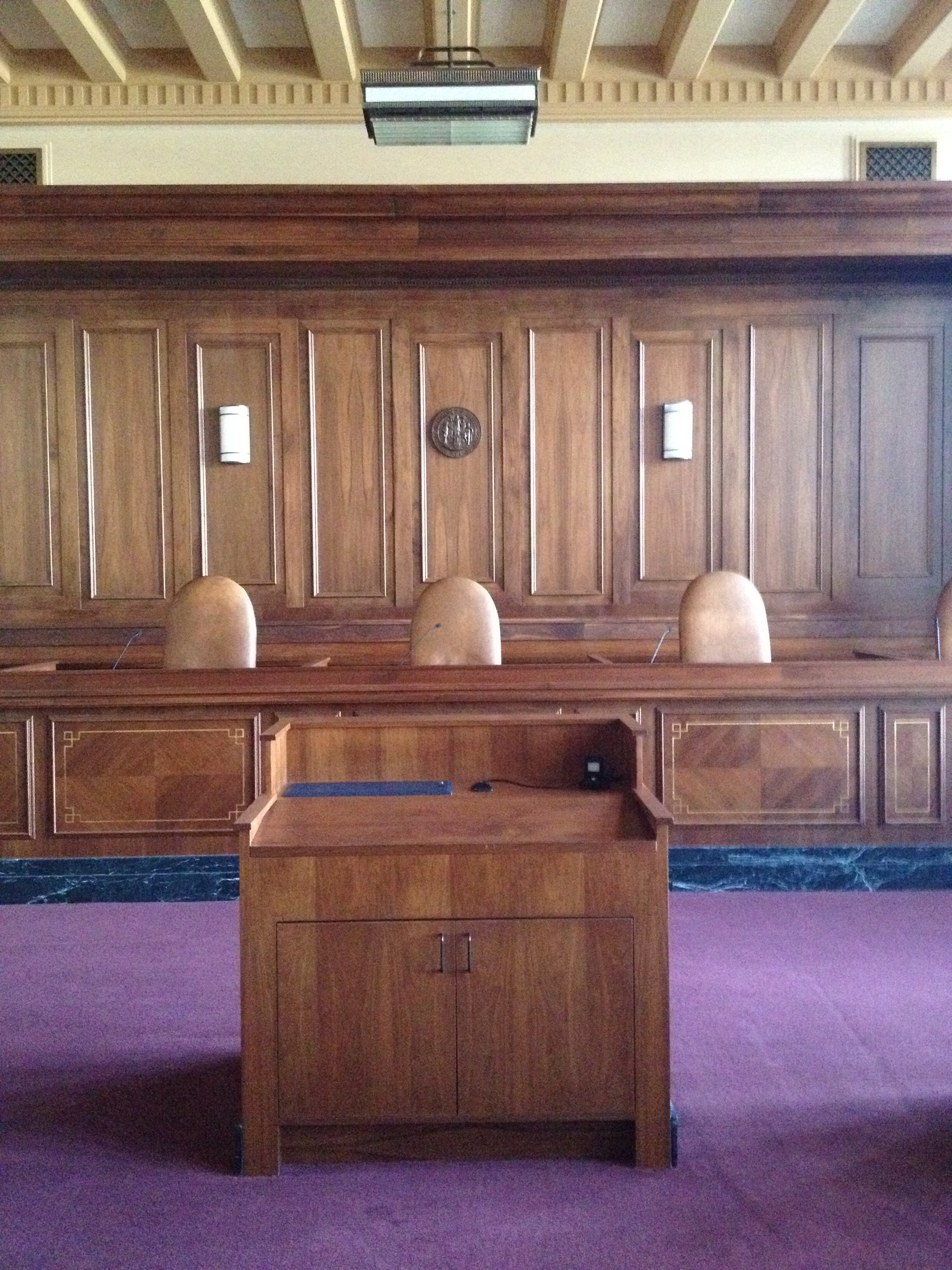 View from behind the lectern in the courtroom of the Wyoming Supreme Court, Cheyenne, Wyoming.